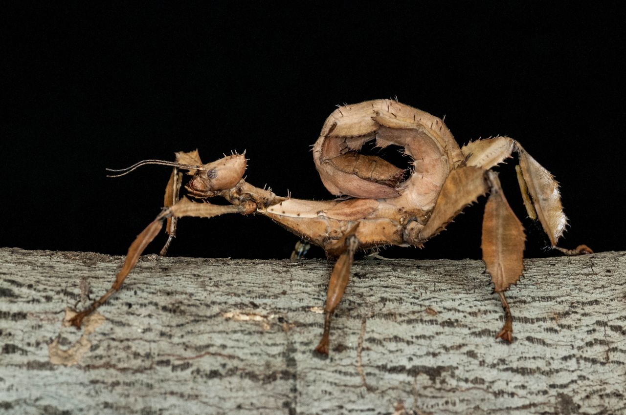 This Australian Walking Stick (Extatosoma tiaratum) is a large species of stick insect endemic to Australia.